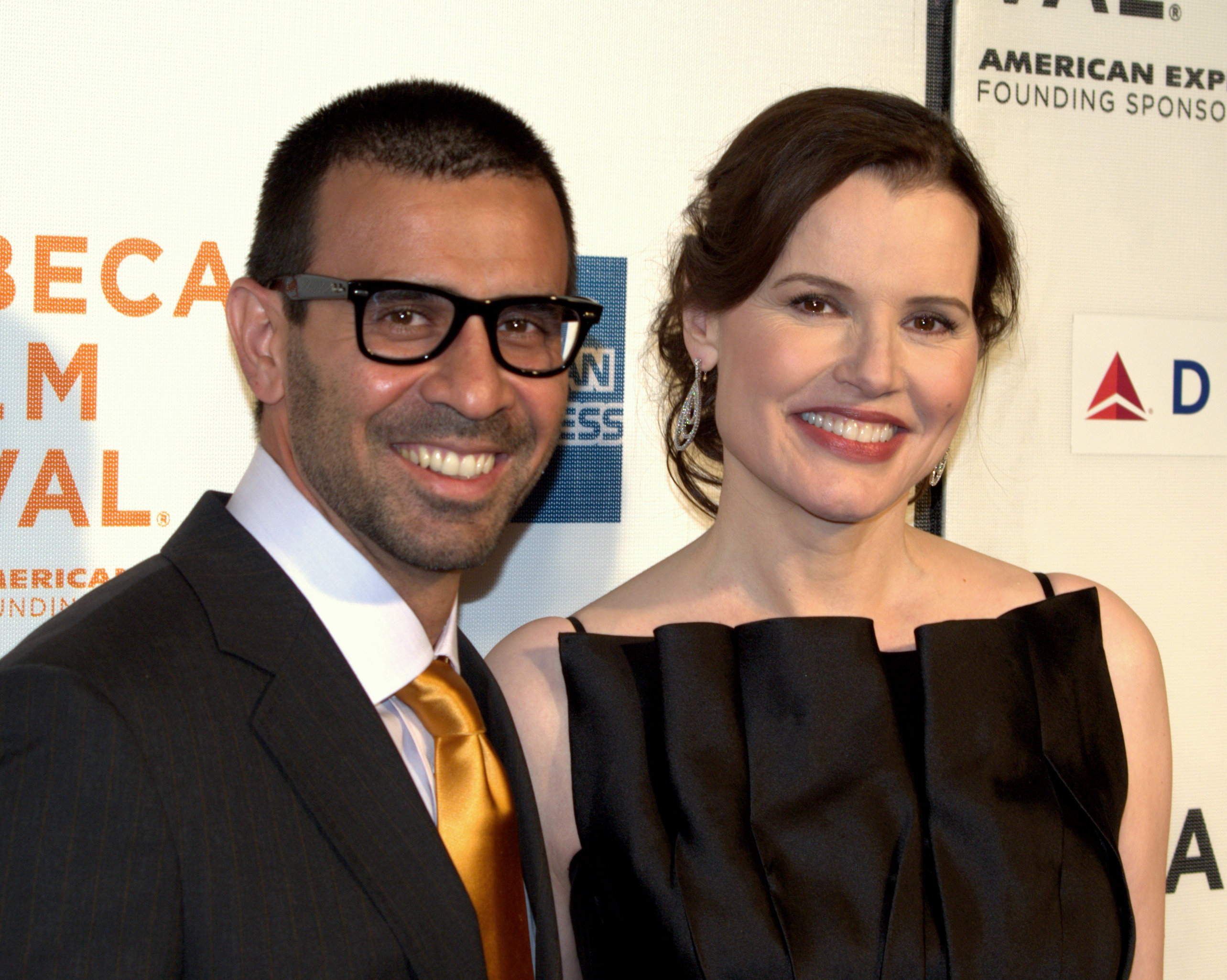 Reza Jarrahy and Geena Davis at the 2009 Tribeca Film Festival premiere of Accidents Happen.